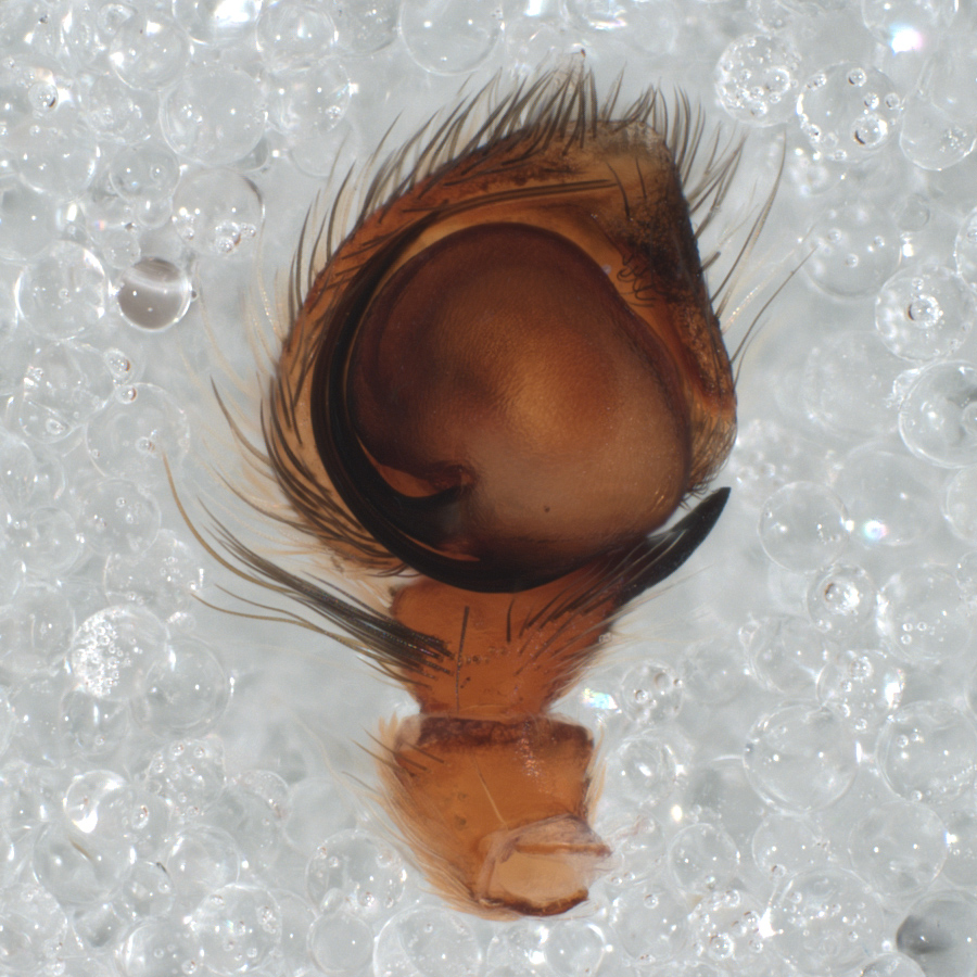 Pedipalp of Habronattus pyrrithrix jumping spider from Sacramento, California